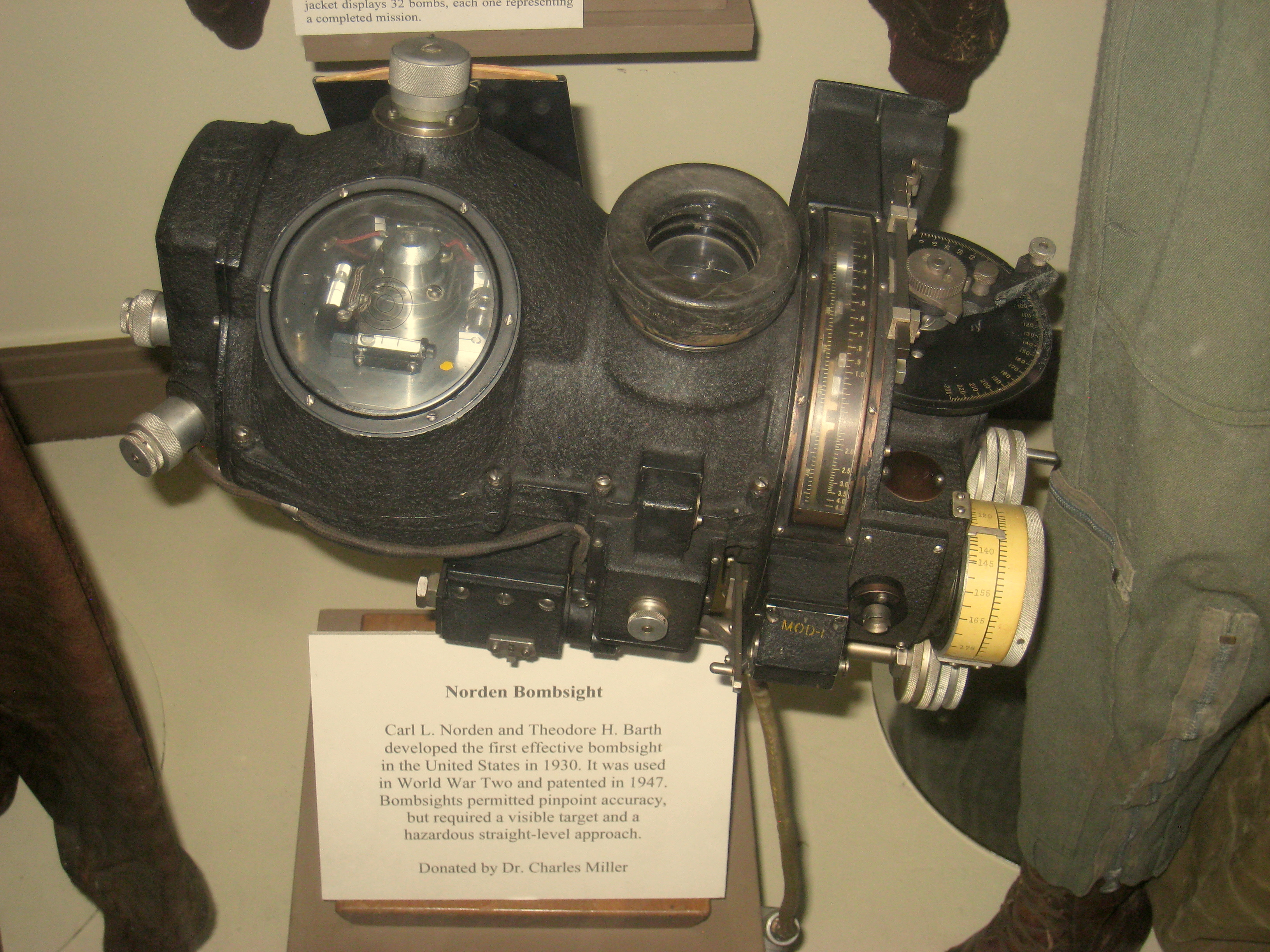 Norden bombsight, exhibited in the Soldiers and Sailors National Military Museum and Memorial, Pittsburgh, Pennsylvania, USA.